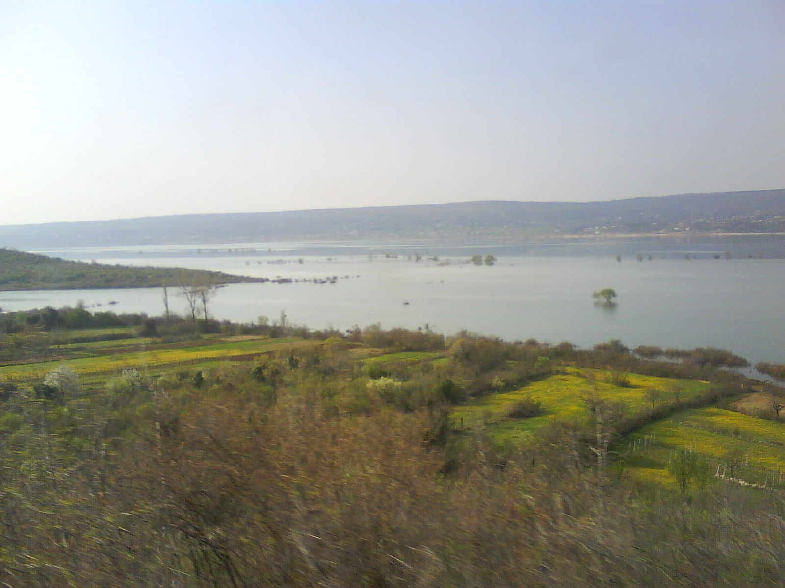 Mostarsko blato and landscapes close to it